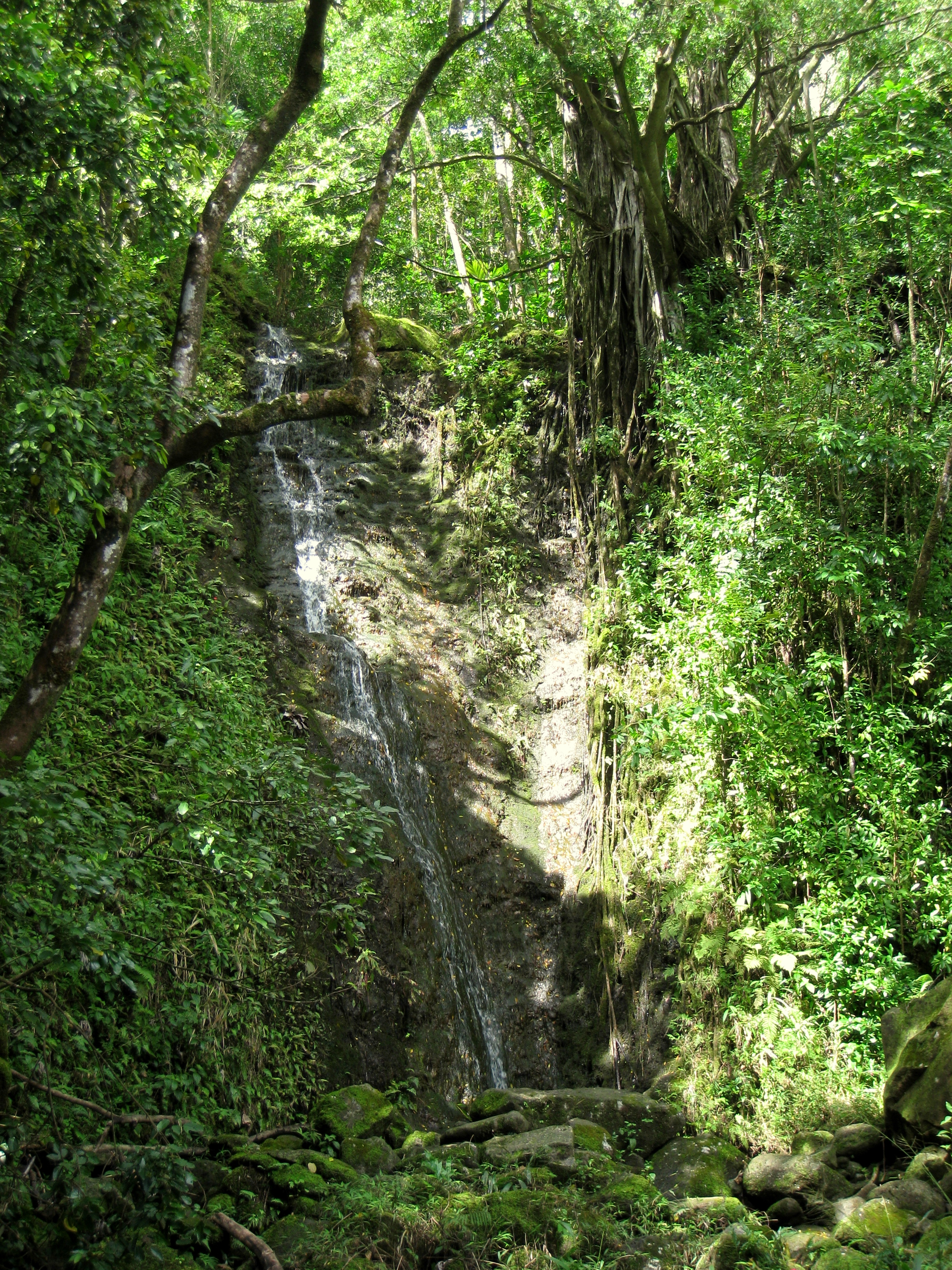 Lyon Arboretum, Oahu, Hawaii, USA - waterfall.